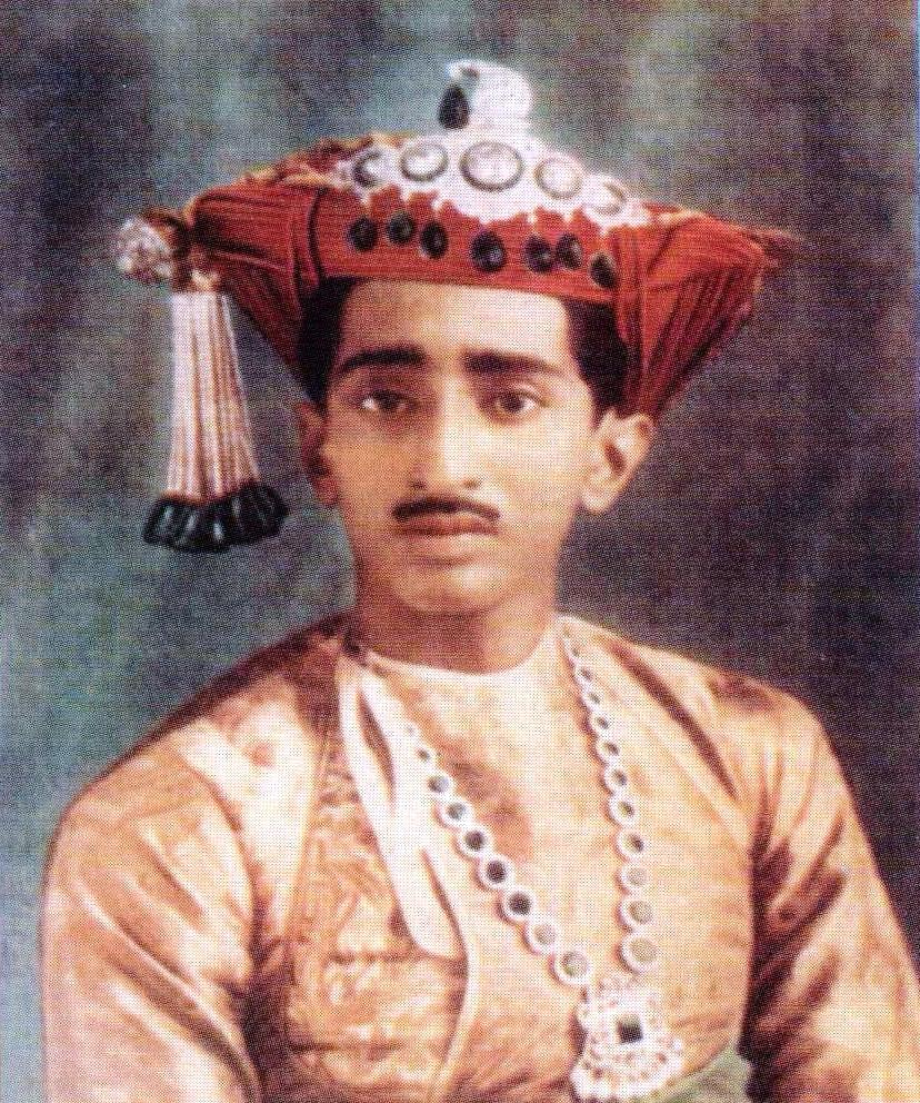 Yashwant Rao Holkar II was the last Maharaja of Holkar